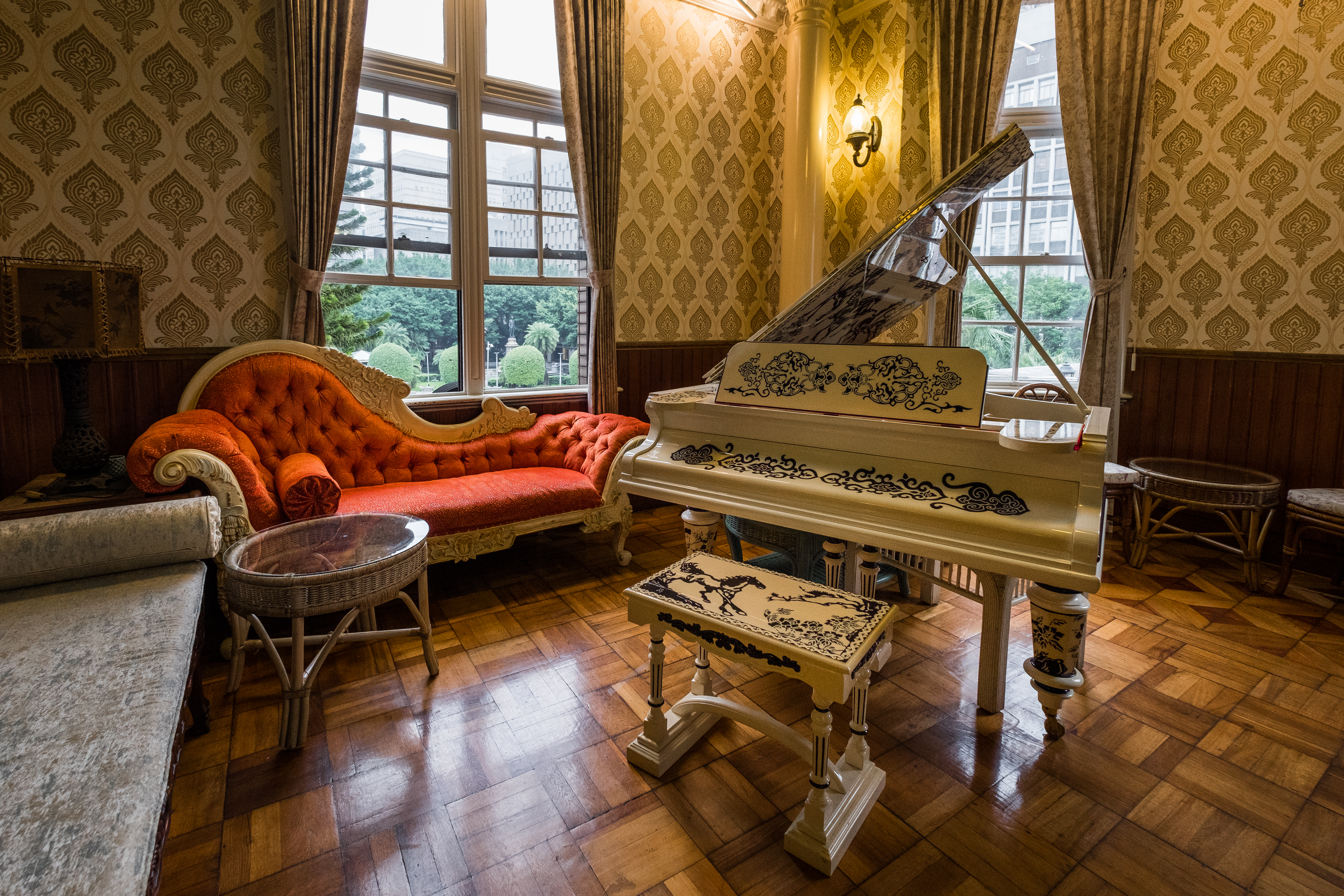 Zhongshan Hall, Taipei